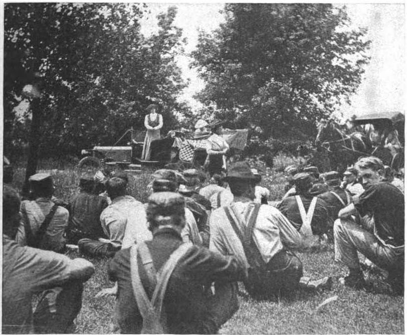 Helen Todd and her fellow suffragettes lecture audience on grass hill about why women should have the right to vote. Helen Todd was a factory inspector who was first recorded as mentioning the labor and suffrage slogan "Bread and Roses".